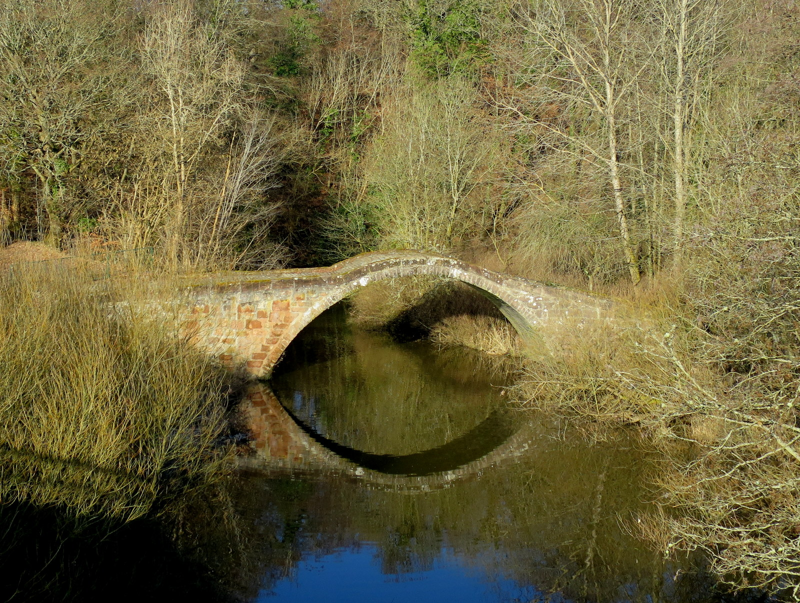 Early one morning in Strathclyde Park